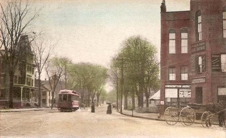 West Main Street facing southwest (toward Haverhill) as seen from Merrimac Square, Merrimac, MA; from a 1911 postcard published by Goodwin & Company. At left is The Monomack House.